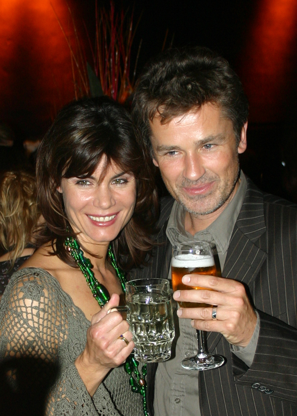 Die Schauspielerin Nicola Tiggeler (u. a. "Sturm der Liebe") mit Ihrem Eheman Timothy Peach im Oktober 2006 in München.